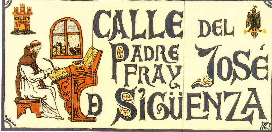 Artistic street signs in Sigüenza (Guadalajara Spain). The Alfar del Monte (Pozancos) ceramics.